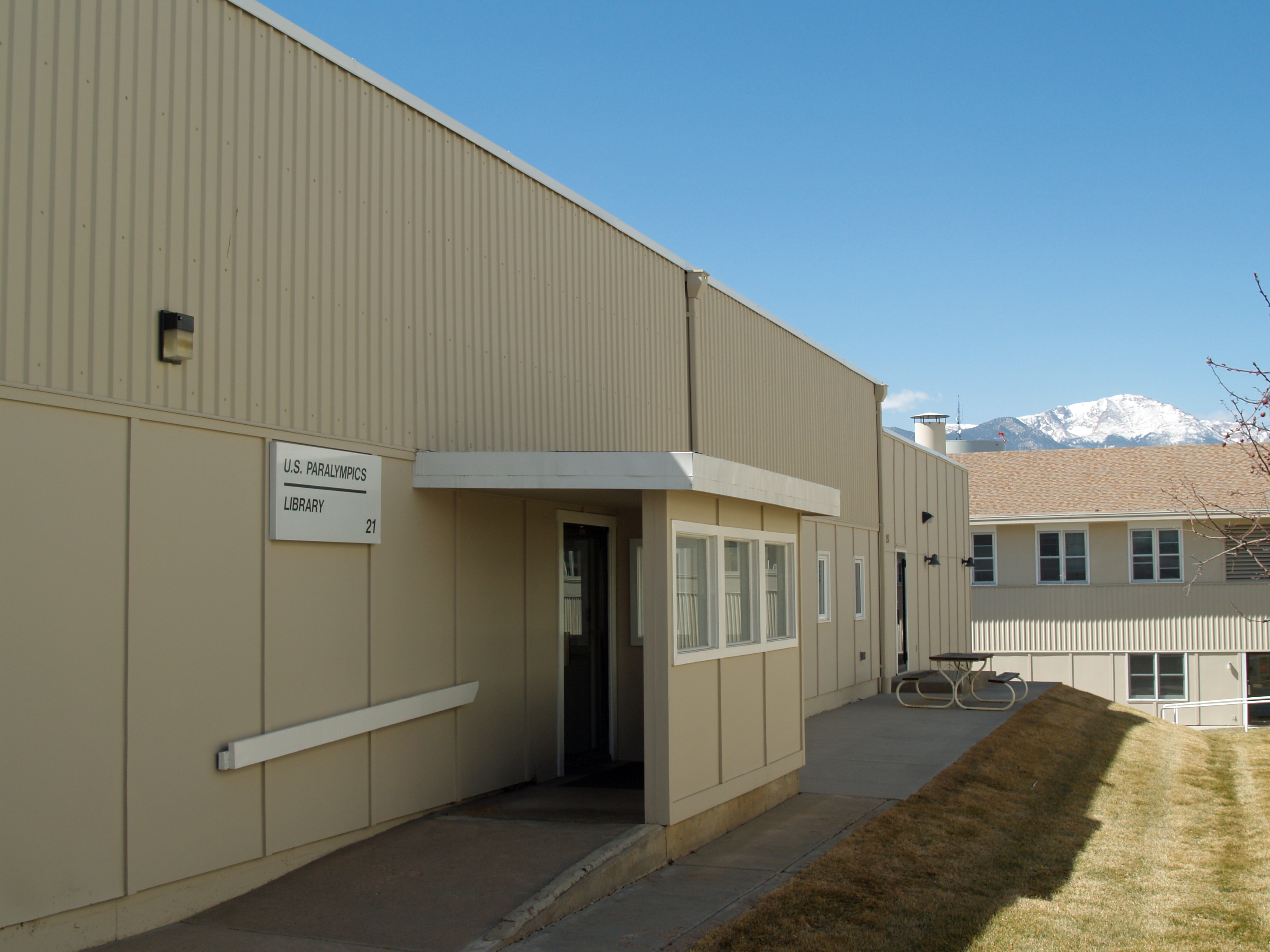 The headquarters for the Paralympics in Colorado Springs, Colorado.